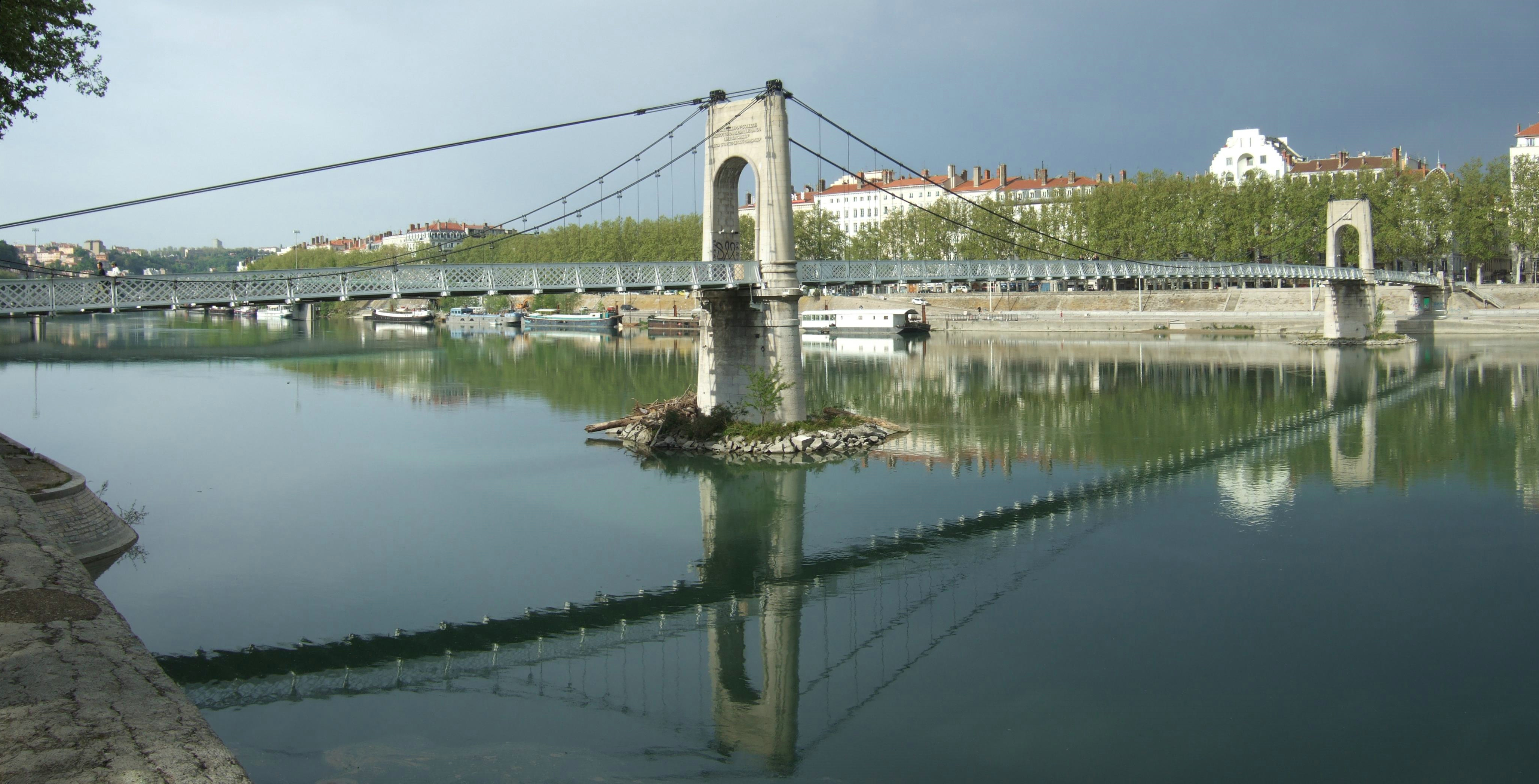 La passerelle du collège - a bridge over the Rhône near Cordeliers metro station. Taken by me.